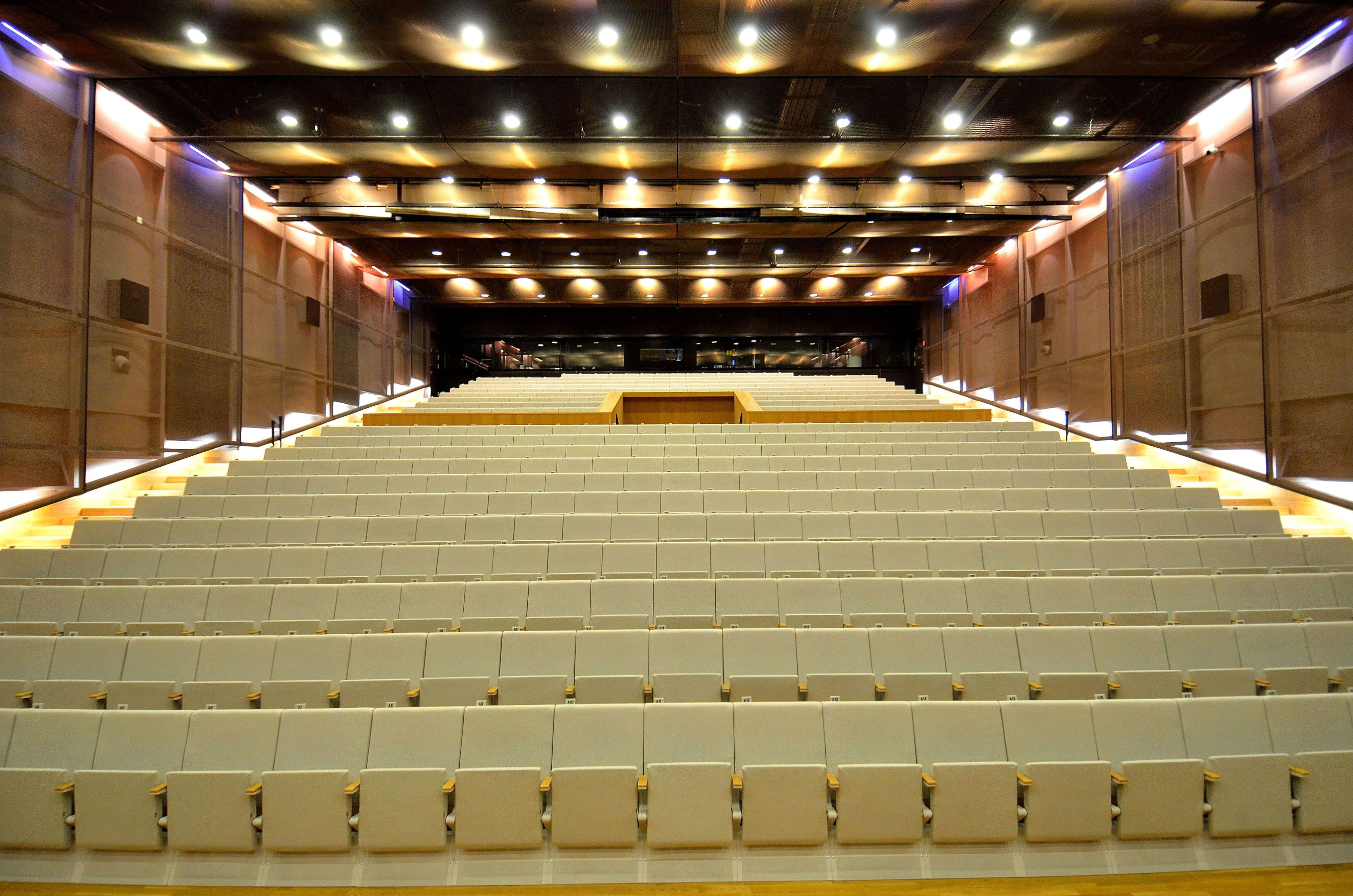 Auditorium at the Museum of the History of Polish Jews in Warsaw